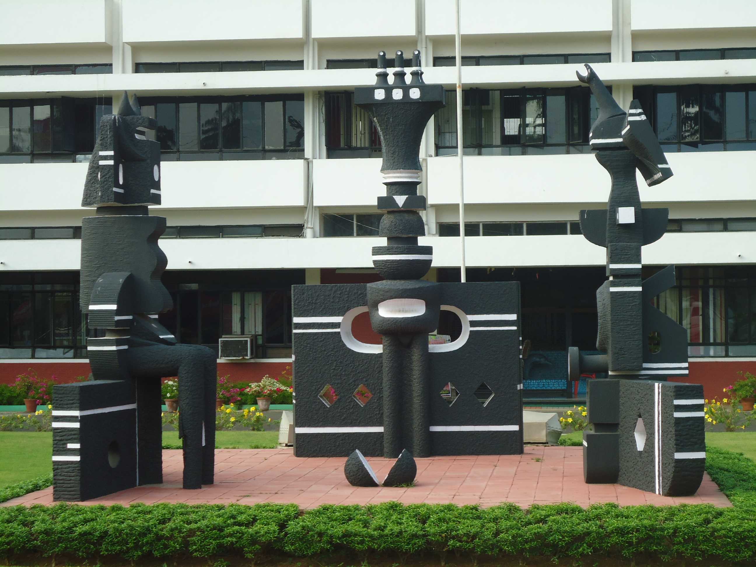 Statue in Greater Cochin Development Authority